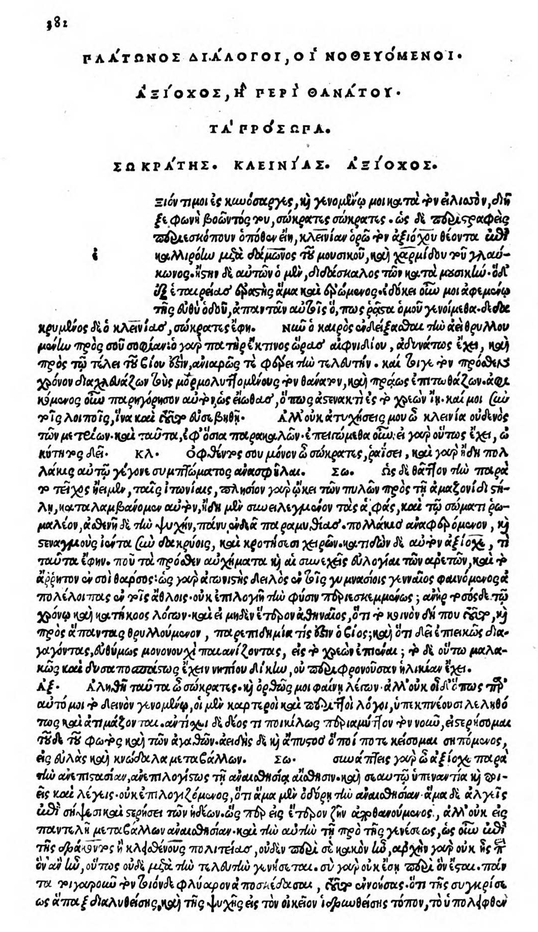 Axiochos beginning. Editio princeps, Venice 1513.